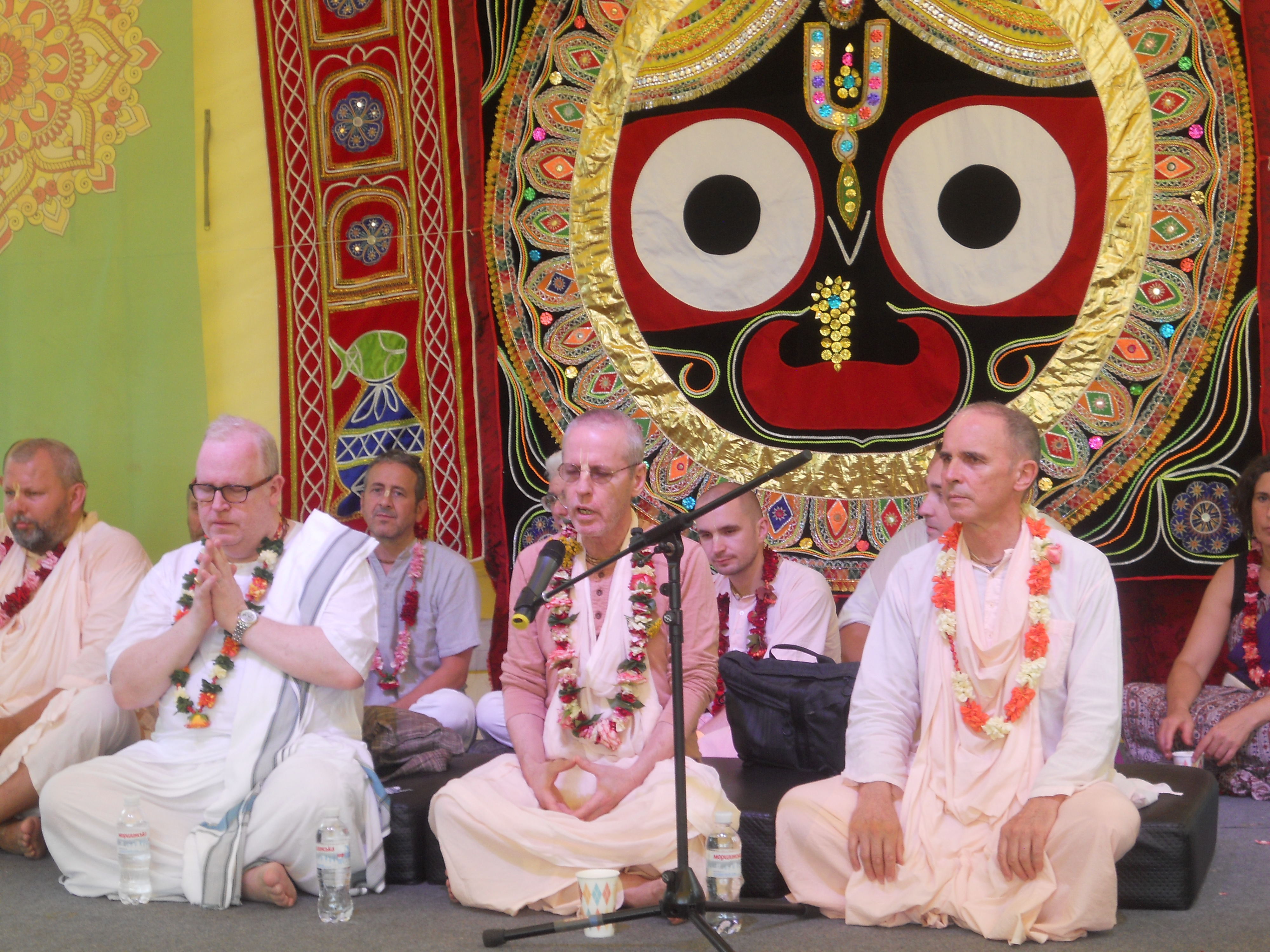 2016 Vedalife International Festival, first day. Gurus from different countries on openning of festo.